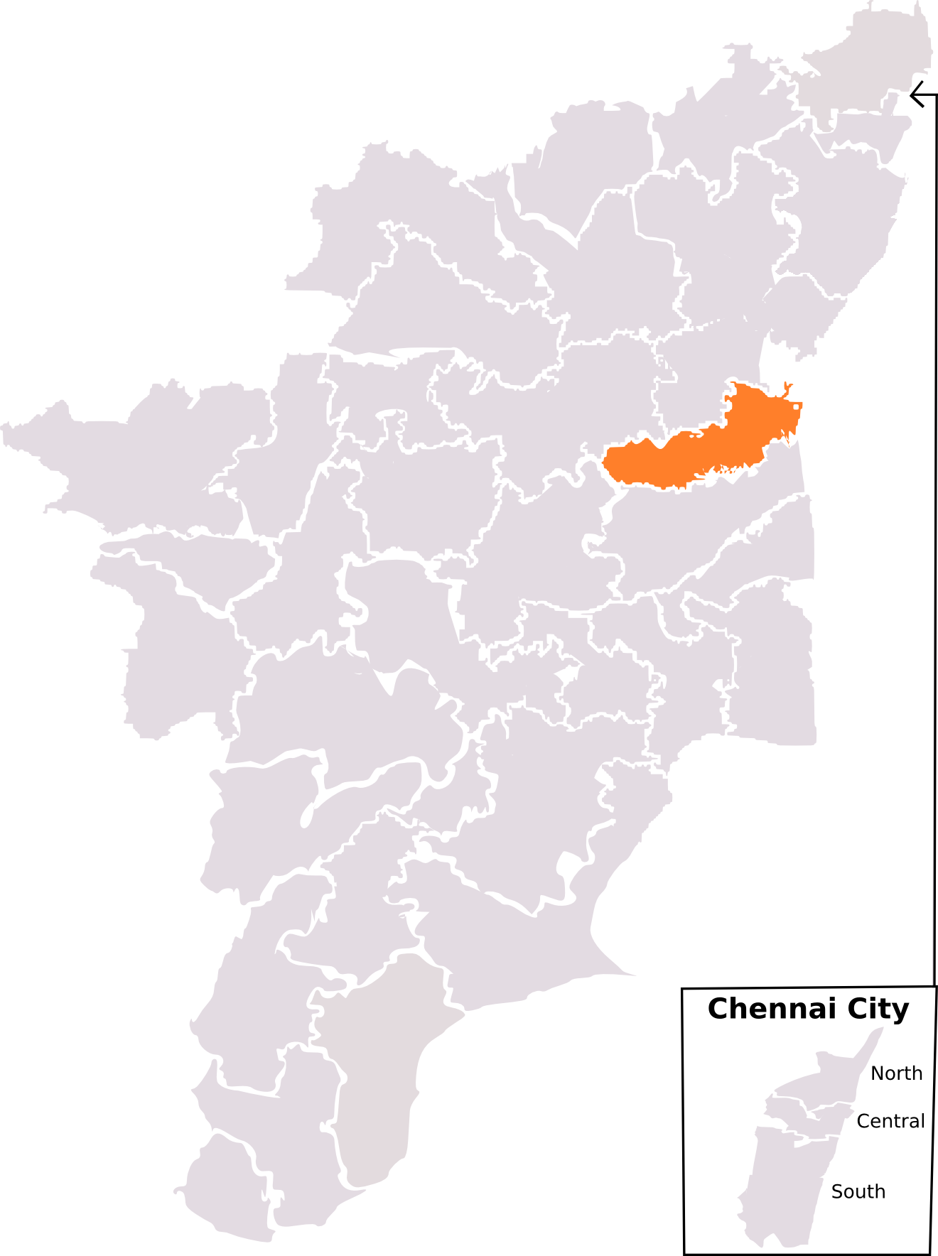 Lok Sabha Election map for Tamil Nadu. Map is based on ECI drawn map. Results are based on ECI website.